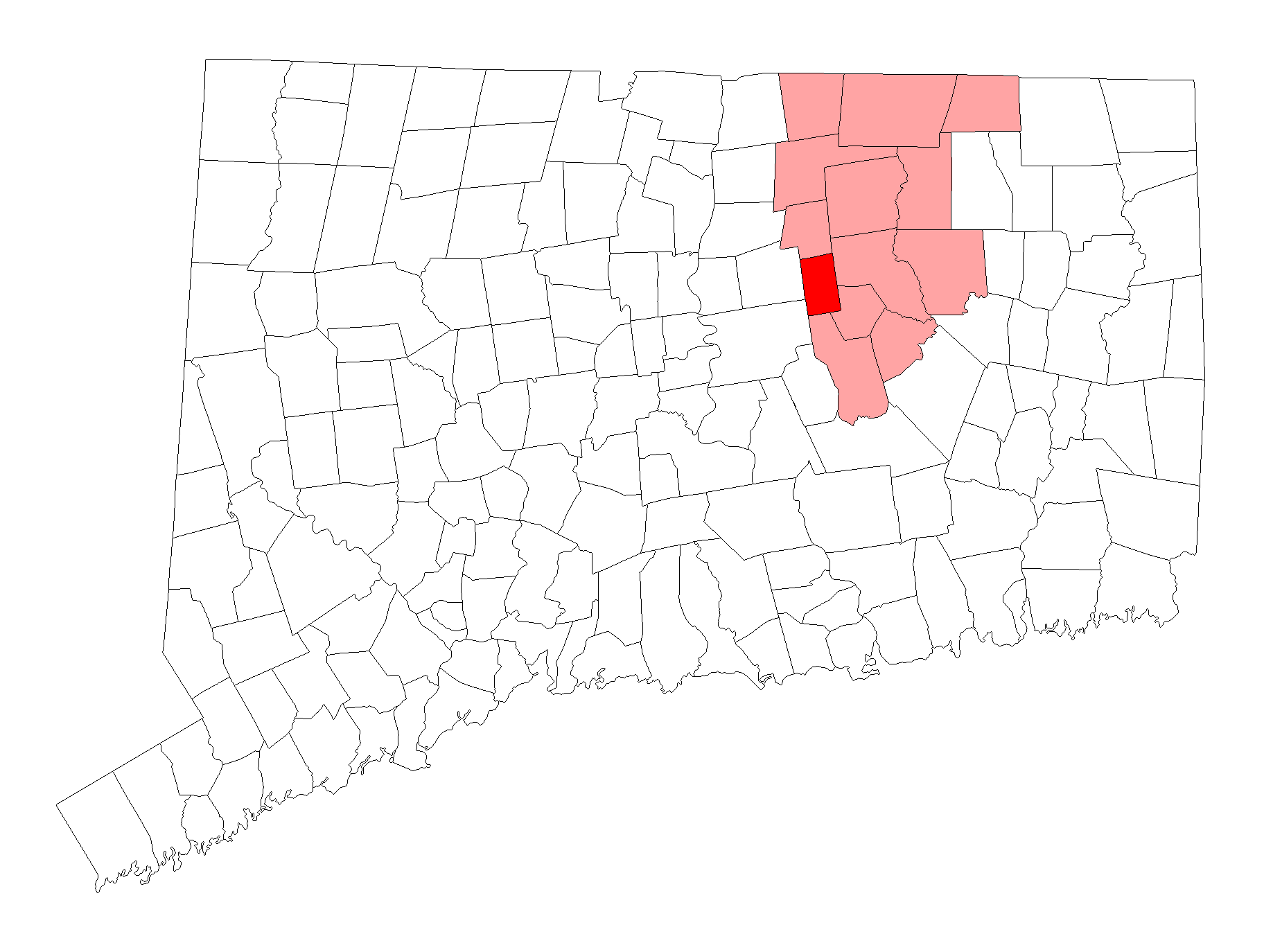 Connecticut state map with Tolland County highlited in lite red and Bolton in dark red.